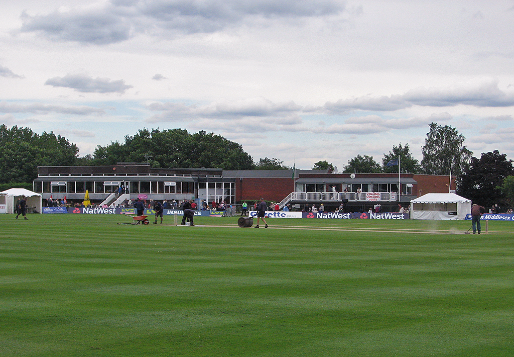 Uxbridge Cricket Club: between innings